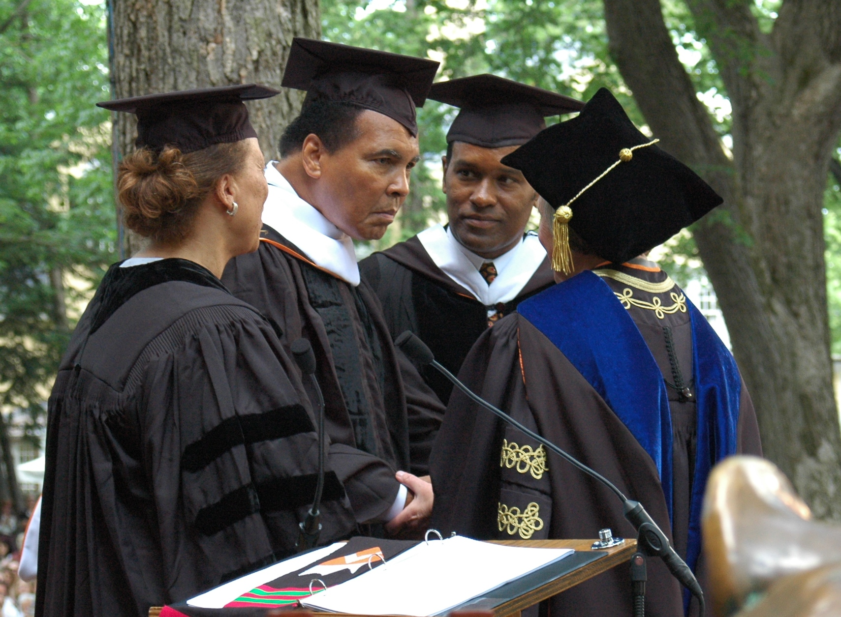 Muhammad Ali receives an honorary doctorate from the Princeton University